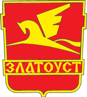 Zlatoust (Chelyabinsk oblast), coat of arms (1966)